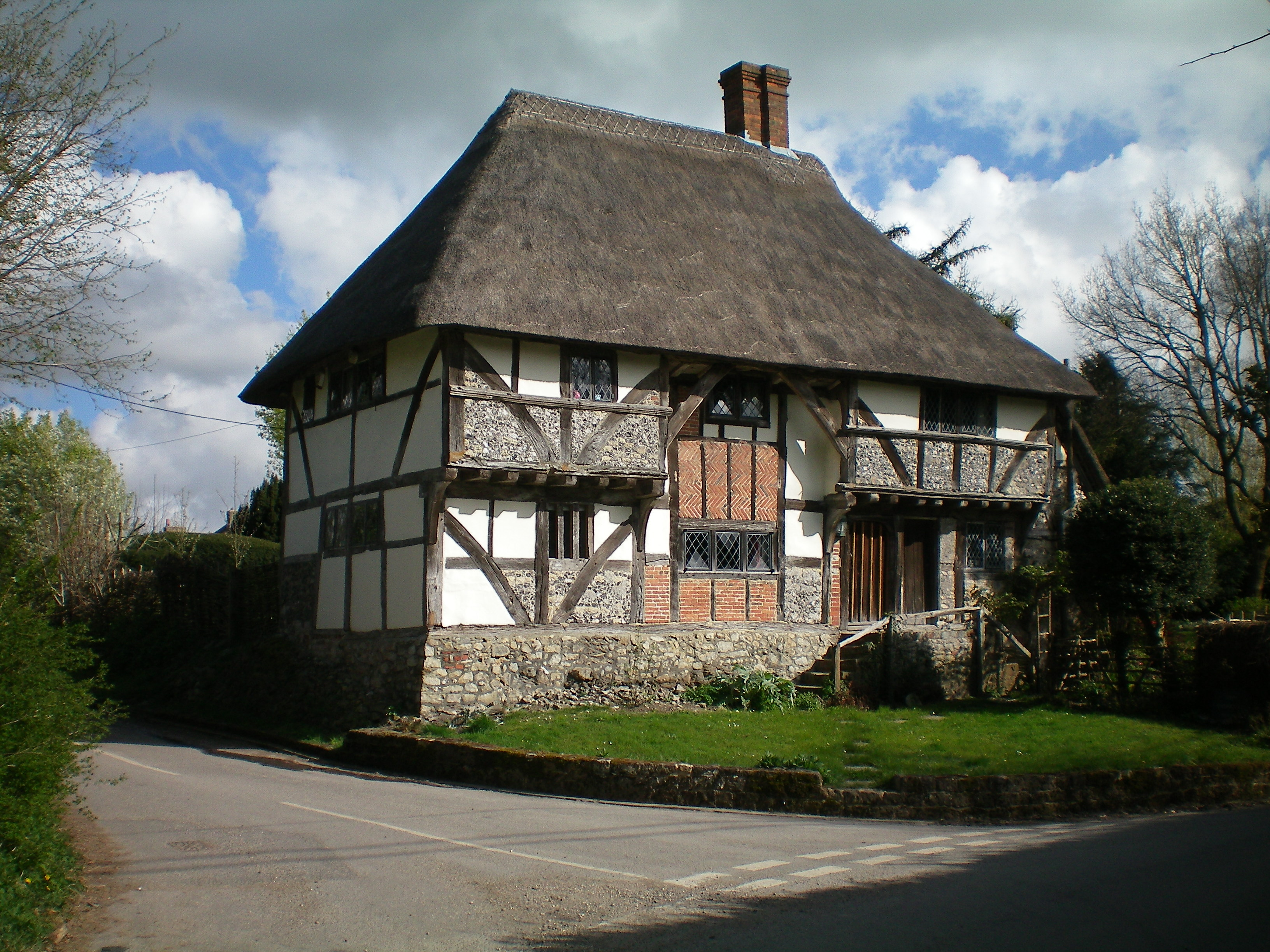 Cottage in Bignor, West Sussex, England.